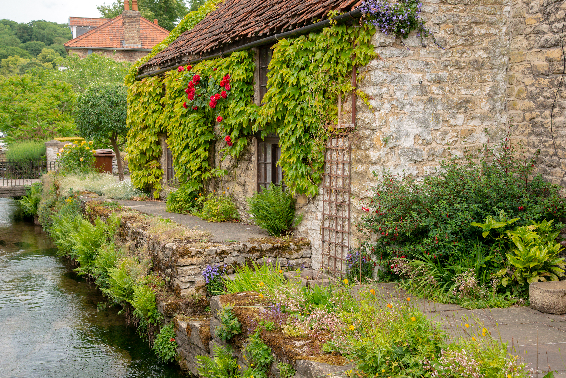 Traditional cottage beside the stream in Thornton-le-Dale